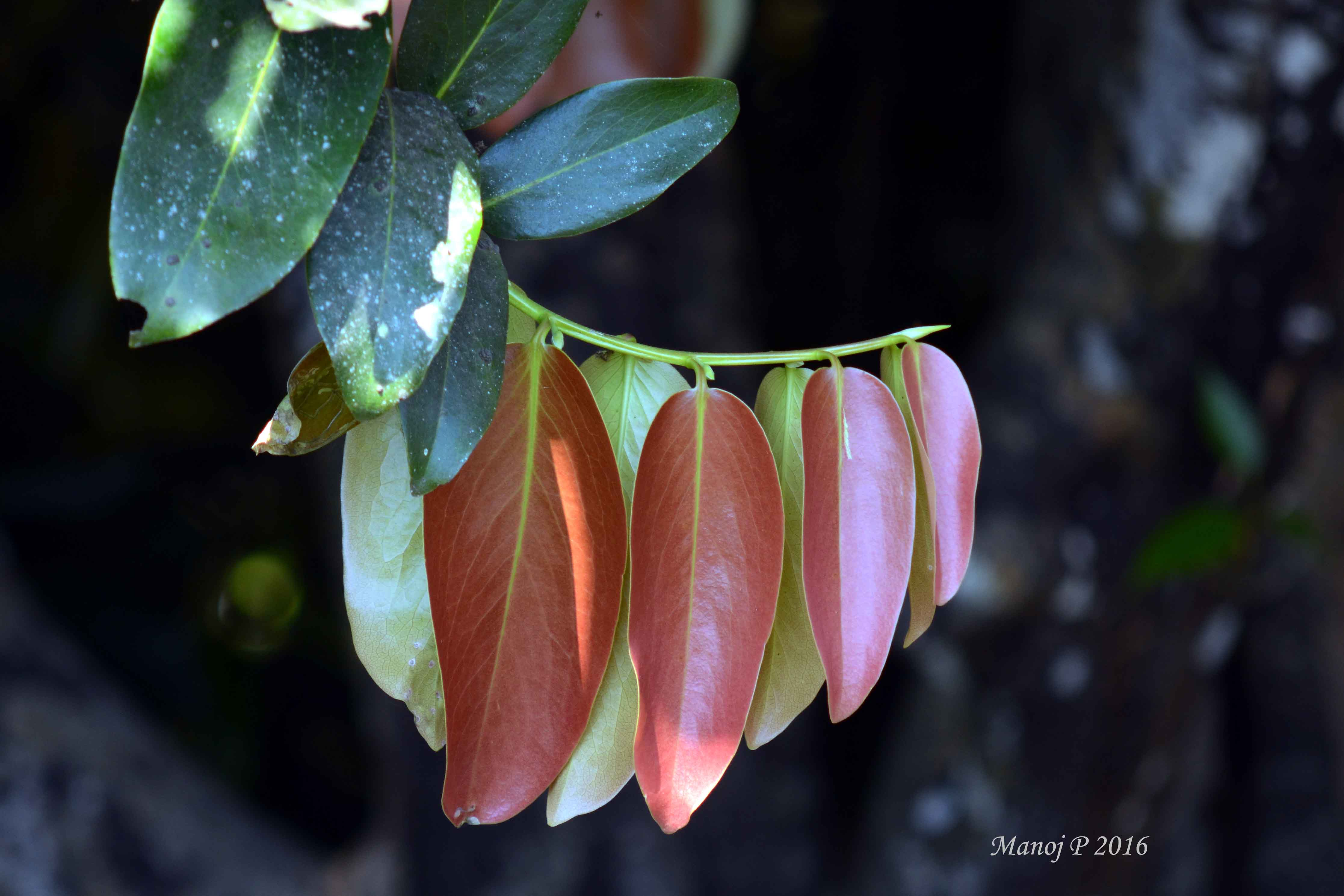 പനച്ചി Malabar ebony Diospyros peregrina. Family: Ebenaceae from Kuruva, Wayanad. 27-02-2016